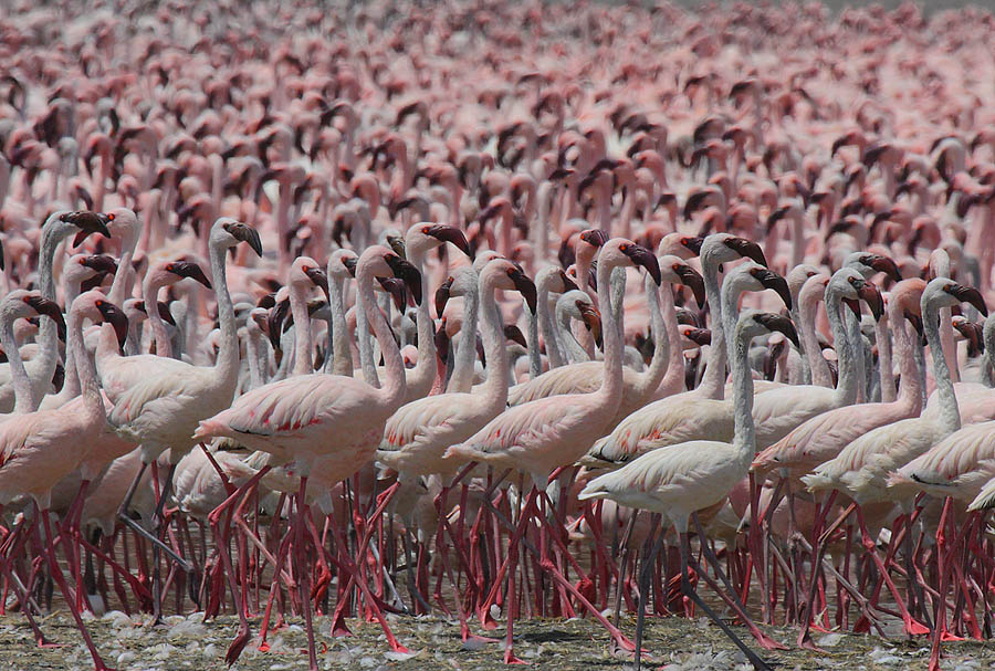 Lesser Flamingos at Lake Bogoria, Kenya.